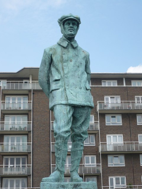 Charles Stewart Rolls, aviator The first man to cross the channel and return in a single flight. June 2 1910.